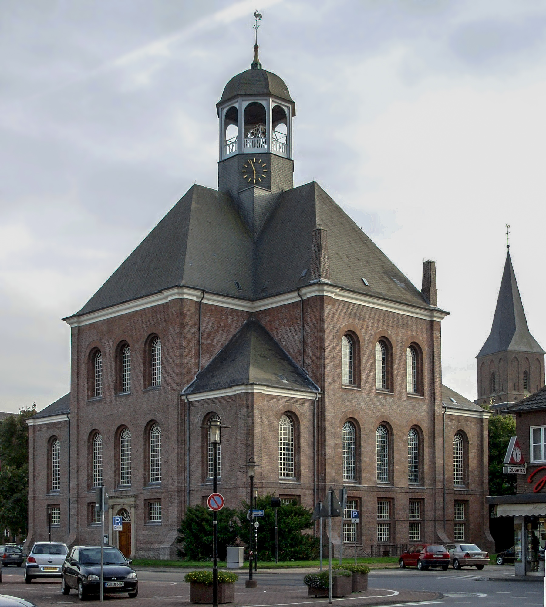 Christ Church in Emmerich am Rhein, Germany This is a photograph of an architectural monument.